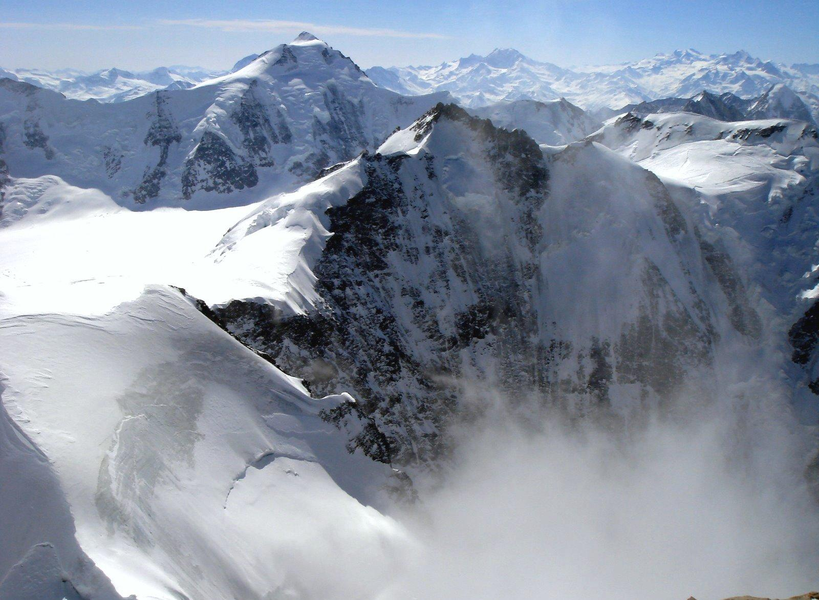 Gletscherhorn (foreground) and Aletschhorn (background), Bernese Alps